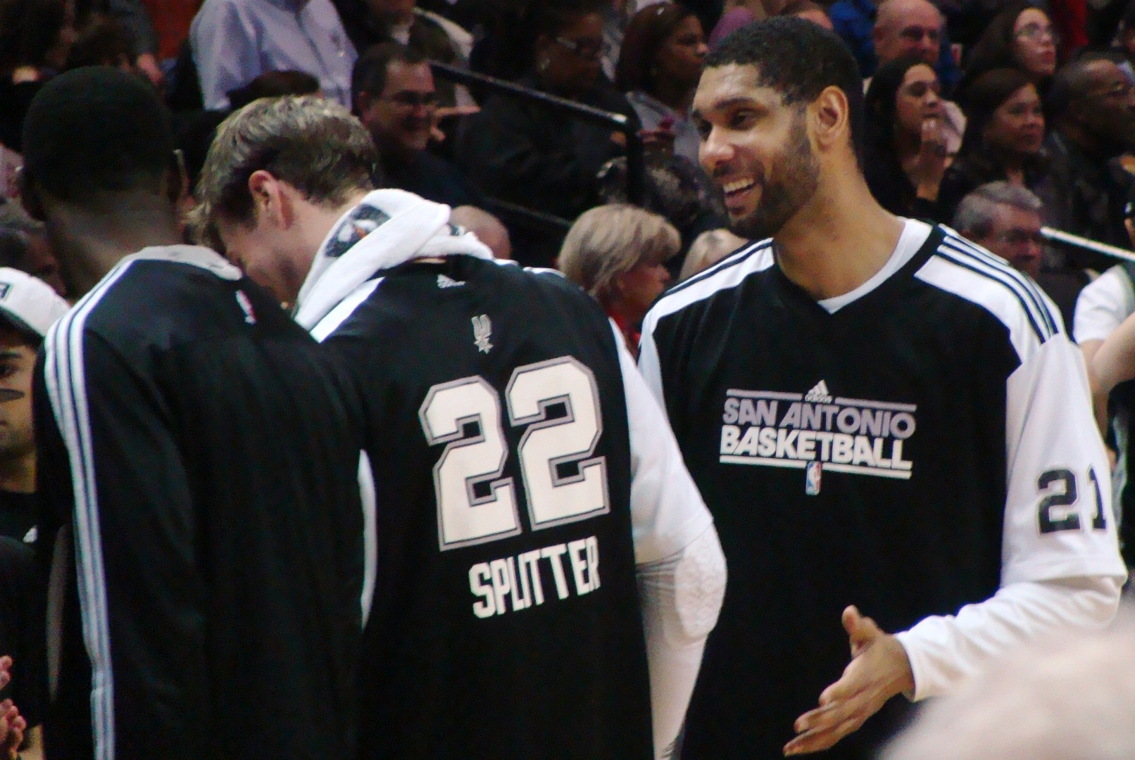 Tim Duncan to Tiago Splitter of the San Antonio Spurs: "Oh, so you think that was funny!" Photo taken during the Spurs-Nuggets match on 12-22-2010 in San Antonio, TX. Also seen in photo is Antonio McDyess.